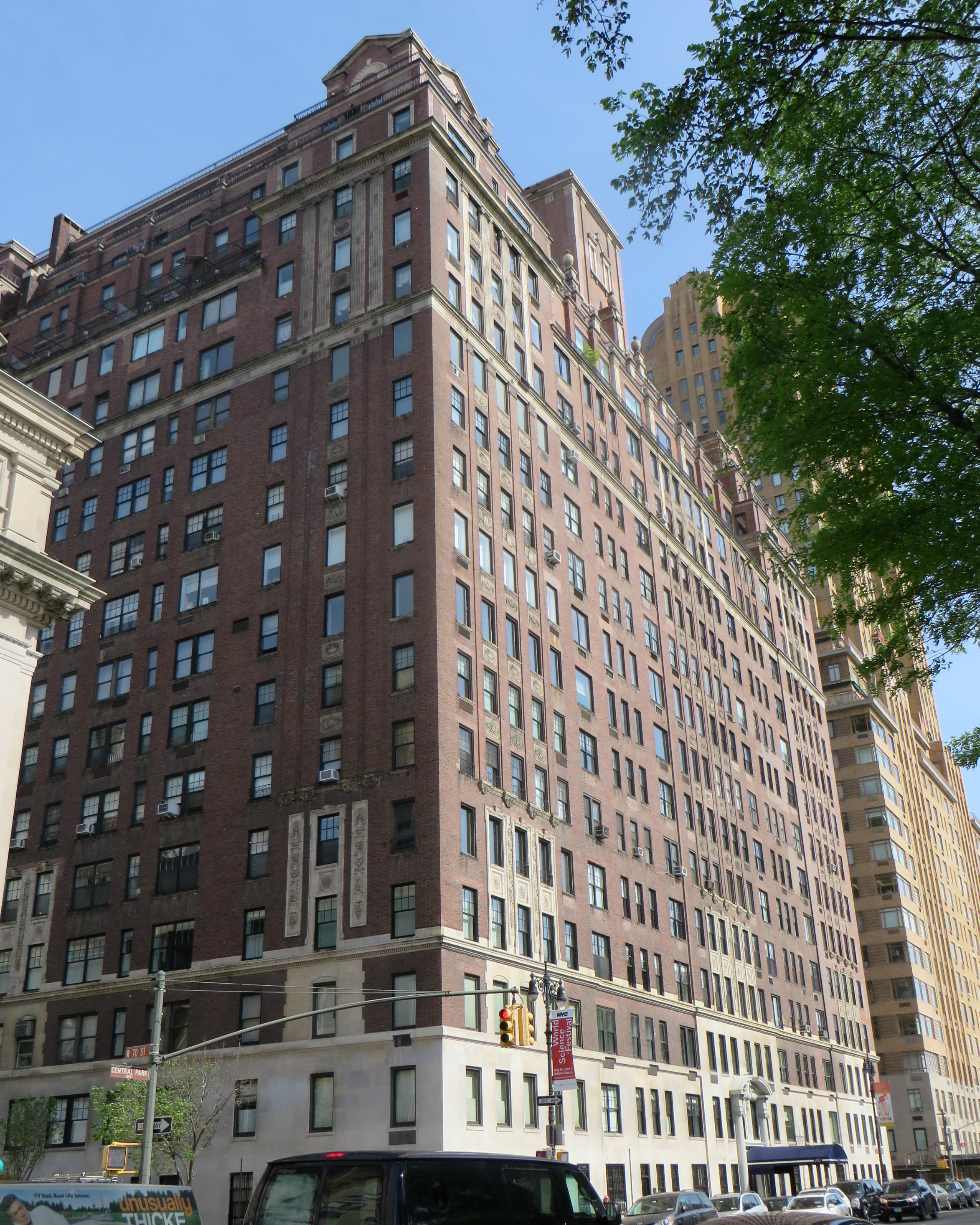 101 Central Park West in Manhattan, New York.